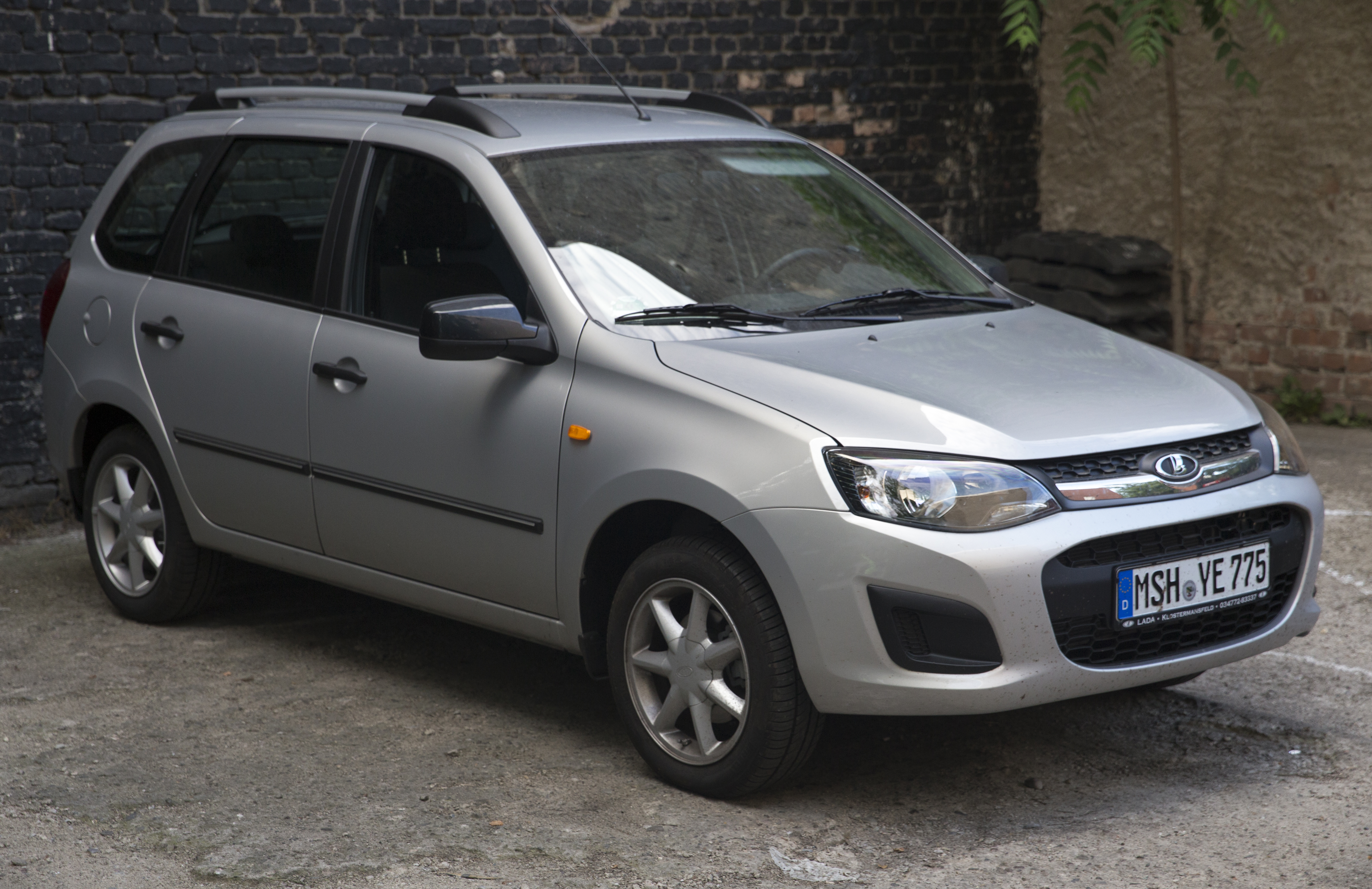 Lada 2194 (Kalina II) in Berlin.